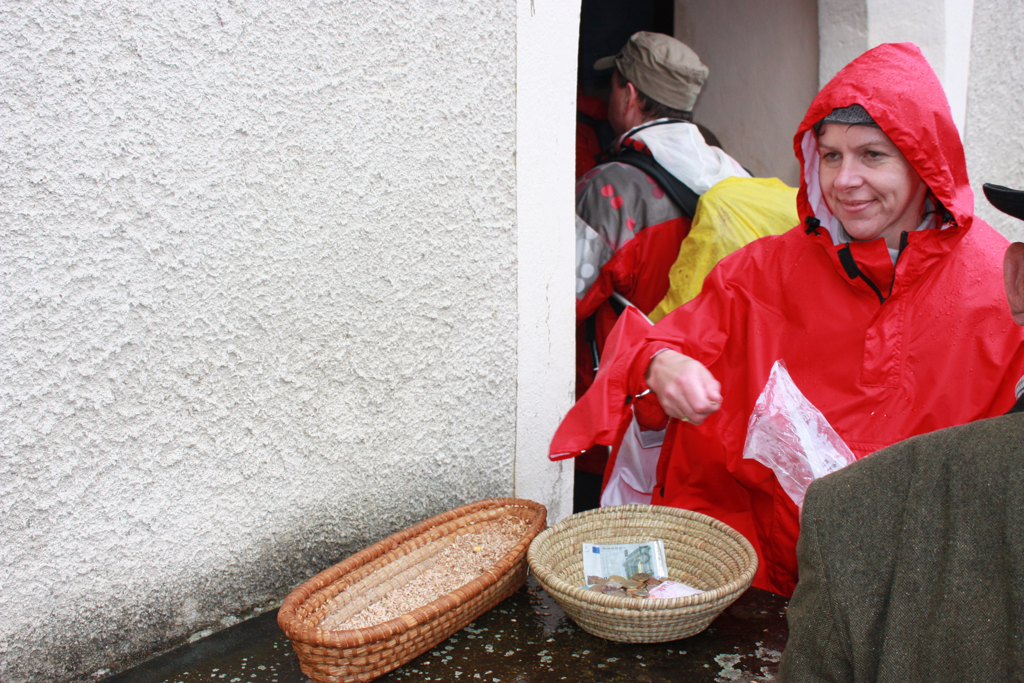 Vierbergelauf: Changing of grain at the parish church of Zweikirchen Locality:Zweikirchen Community:w:Liebenfels